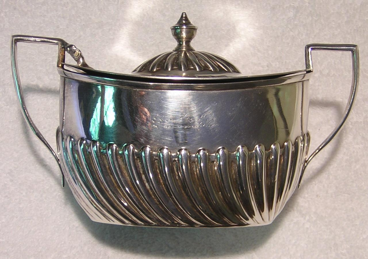 ATSF holloware lidded sugar bowl possibly made by Harrison & Howson in the 1910s, possibly later, or possibly a reproduction (has Harrison & Howson, Sheffield England stamped on the bottom). Used in Dining car service.